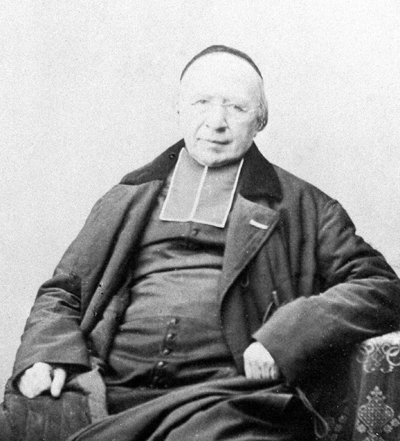 Charles Carton (1802-1863), Belgian priest, historian and politician.